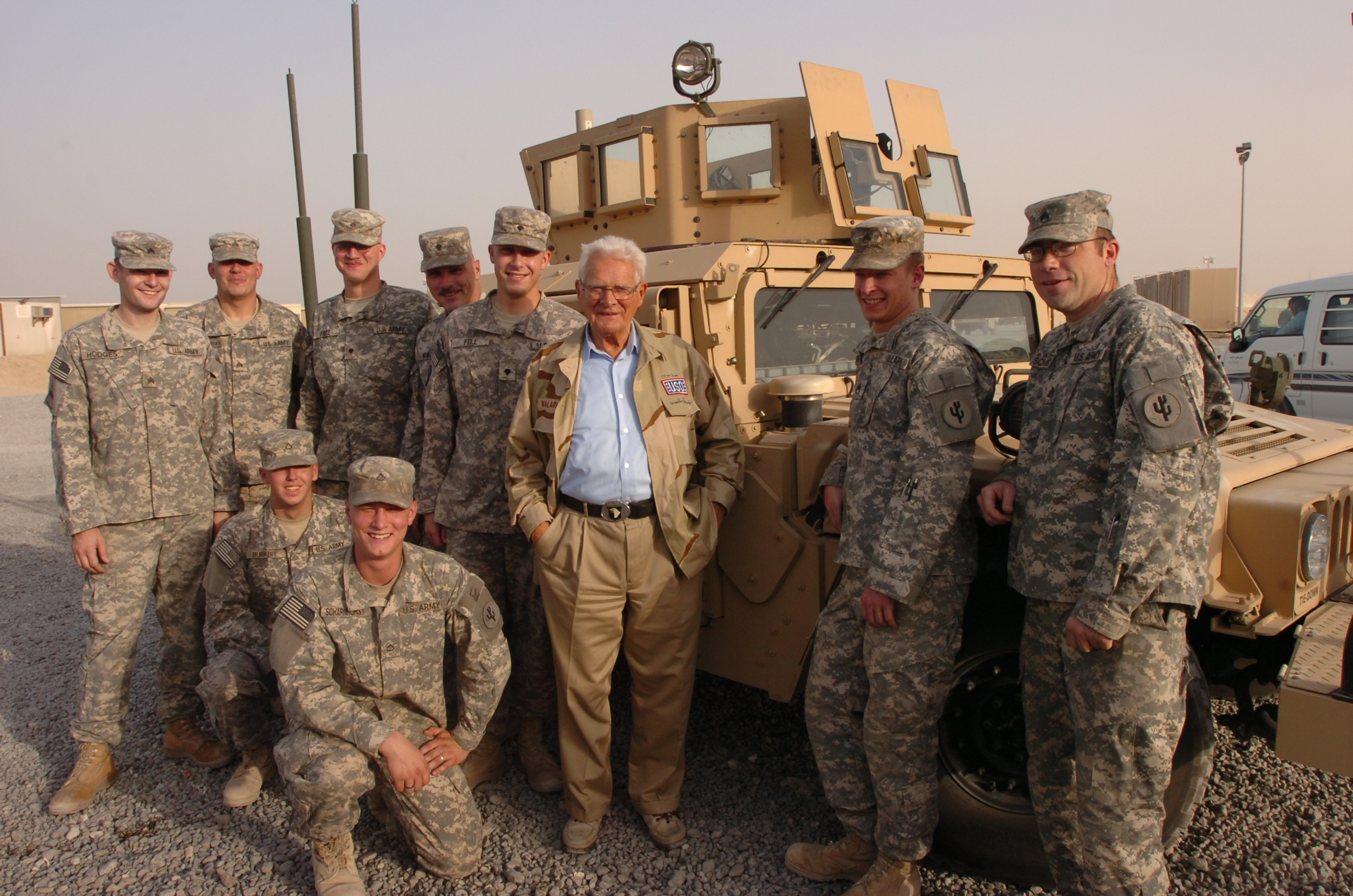 Don Malarkey meeting with Jacob and the skull bats ca, 2008 Members of the 129th Transportation Company (HETS), who provide escort security for convoy missions, pose in front of a M1151 gun truck with WWII vet Don Malarkey, 87, who was featured in the HBO mini-series “Band of Brothers.”